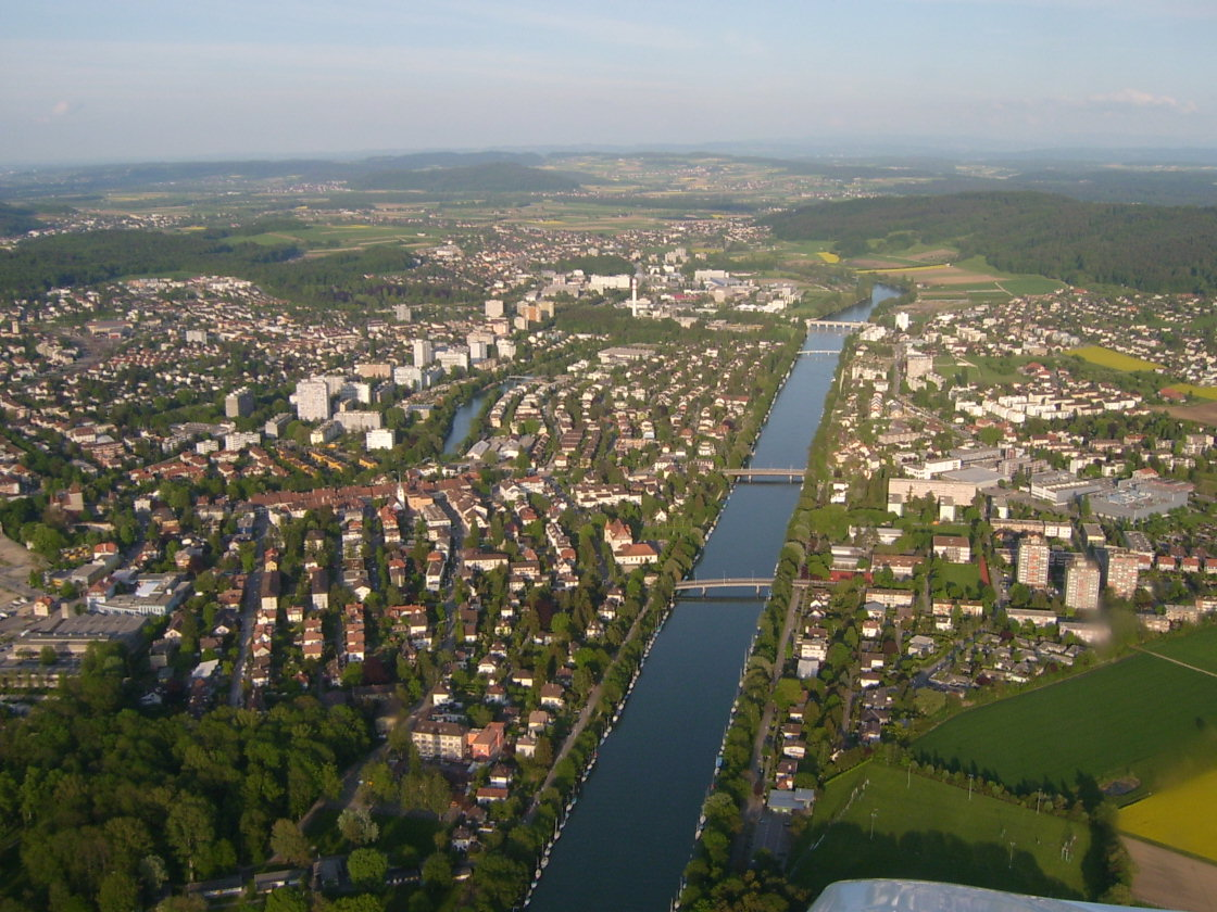 Vue aérienne de Nidau